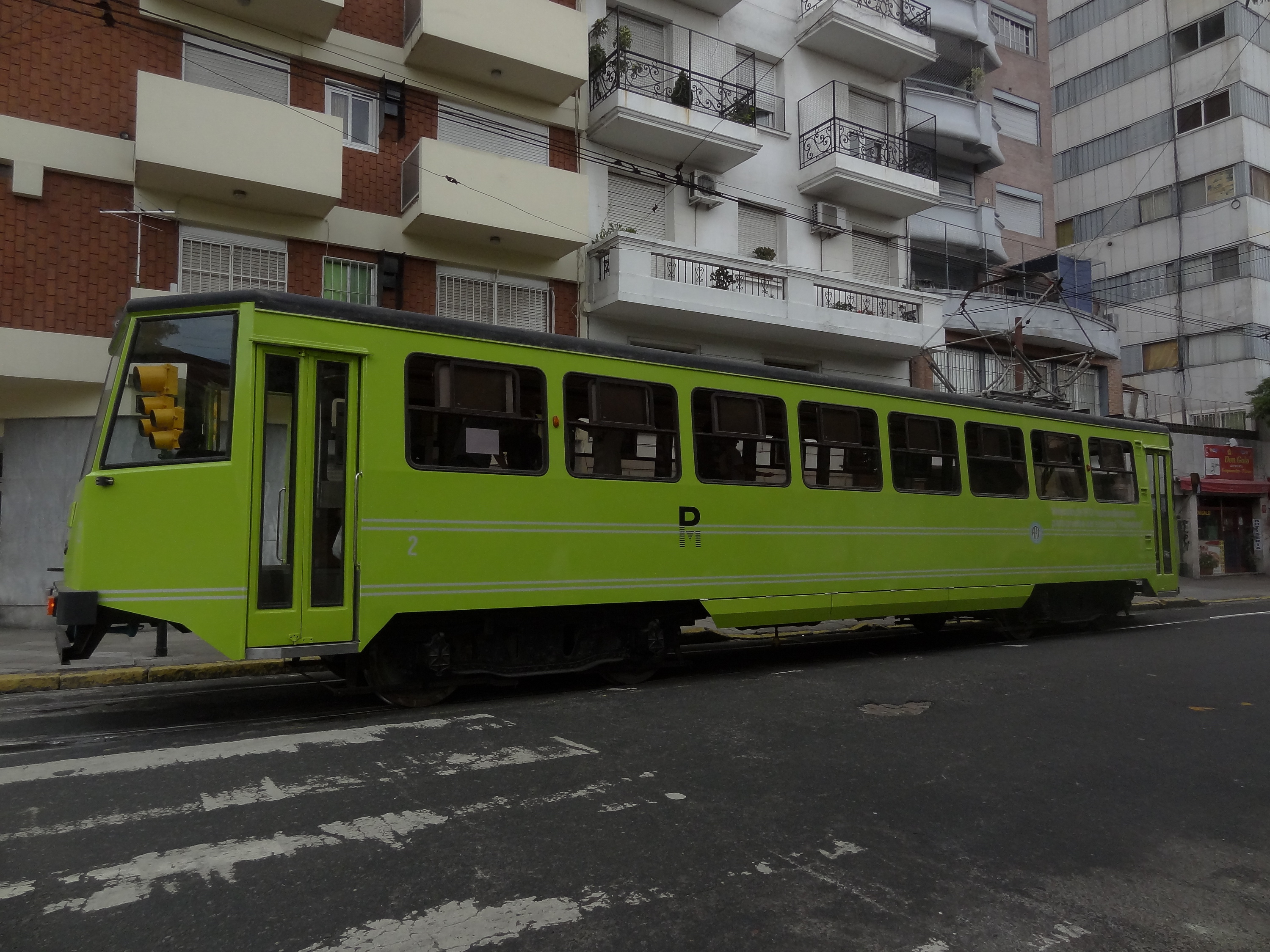 A "Lagarto" car belonging to the Association of Friends of the Tramway in Buenos Aires. The former La Brugeoise car had been remodled to serve as temporary rolling stock on the Premetro line in the city.